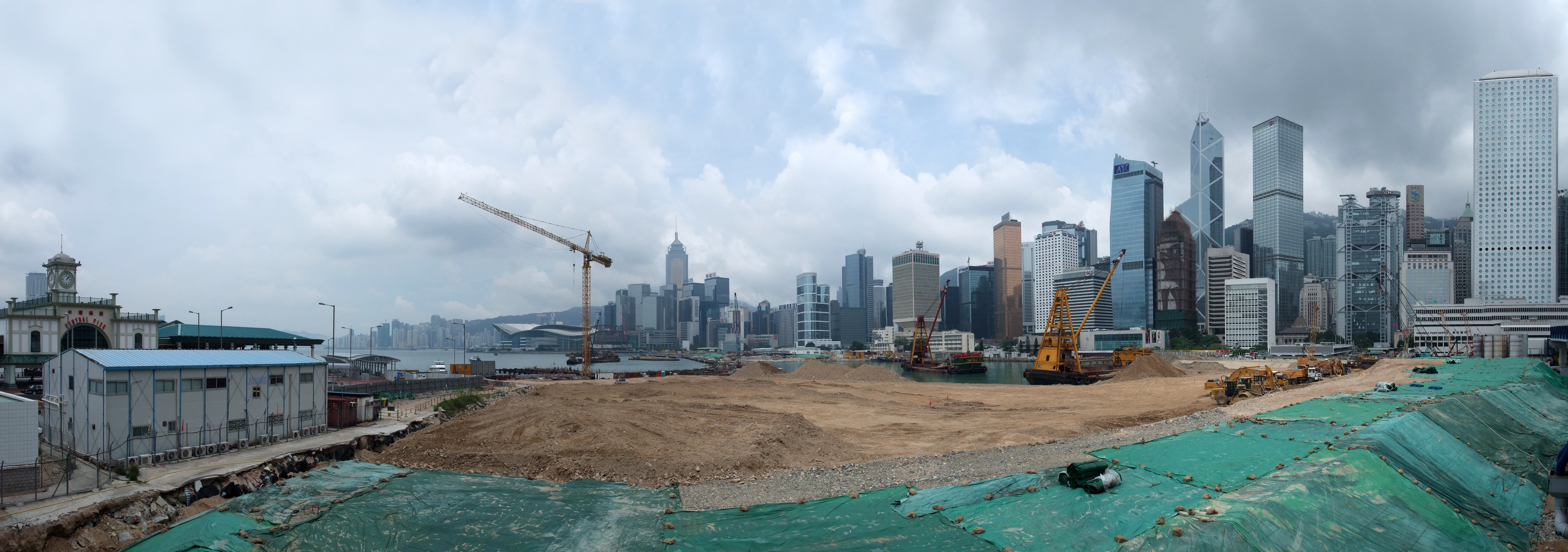 Panoramic photo of Central Reclamation Phase 3, combined from 2520422143, 2520427441, 2521251104, 2520438053, 2520443645 and 2521267576